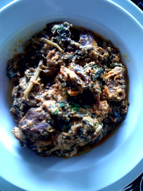 Gboma dessi, a dish from togo